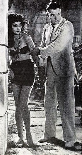 Kathleen Burke e Richard Arlen in Island of Lost Souls